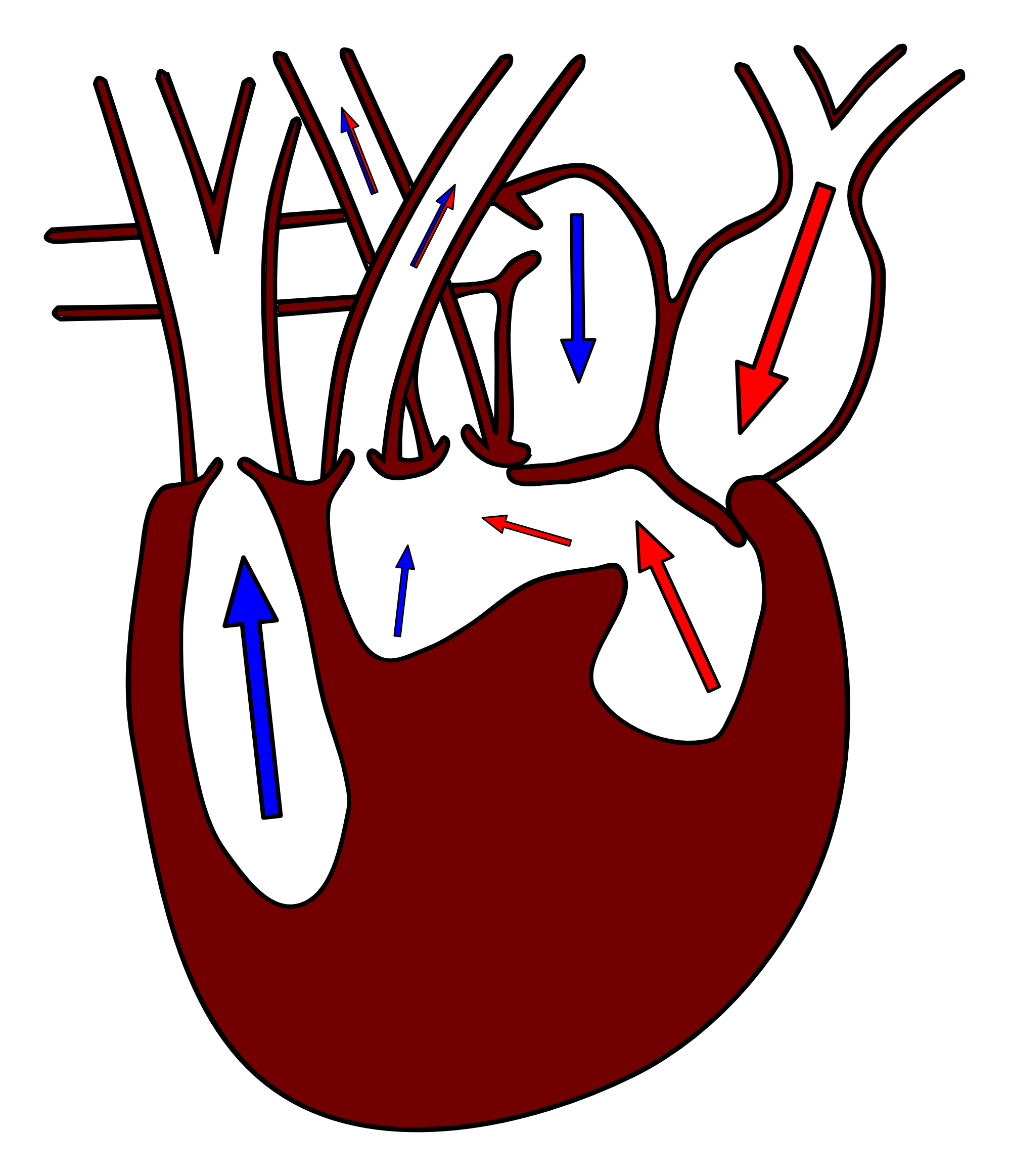 Varanus heart, systole.